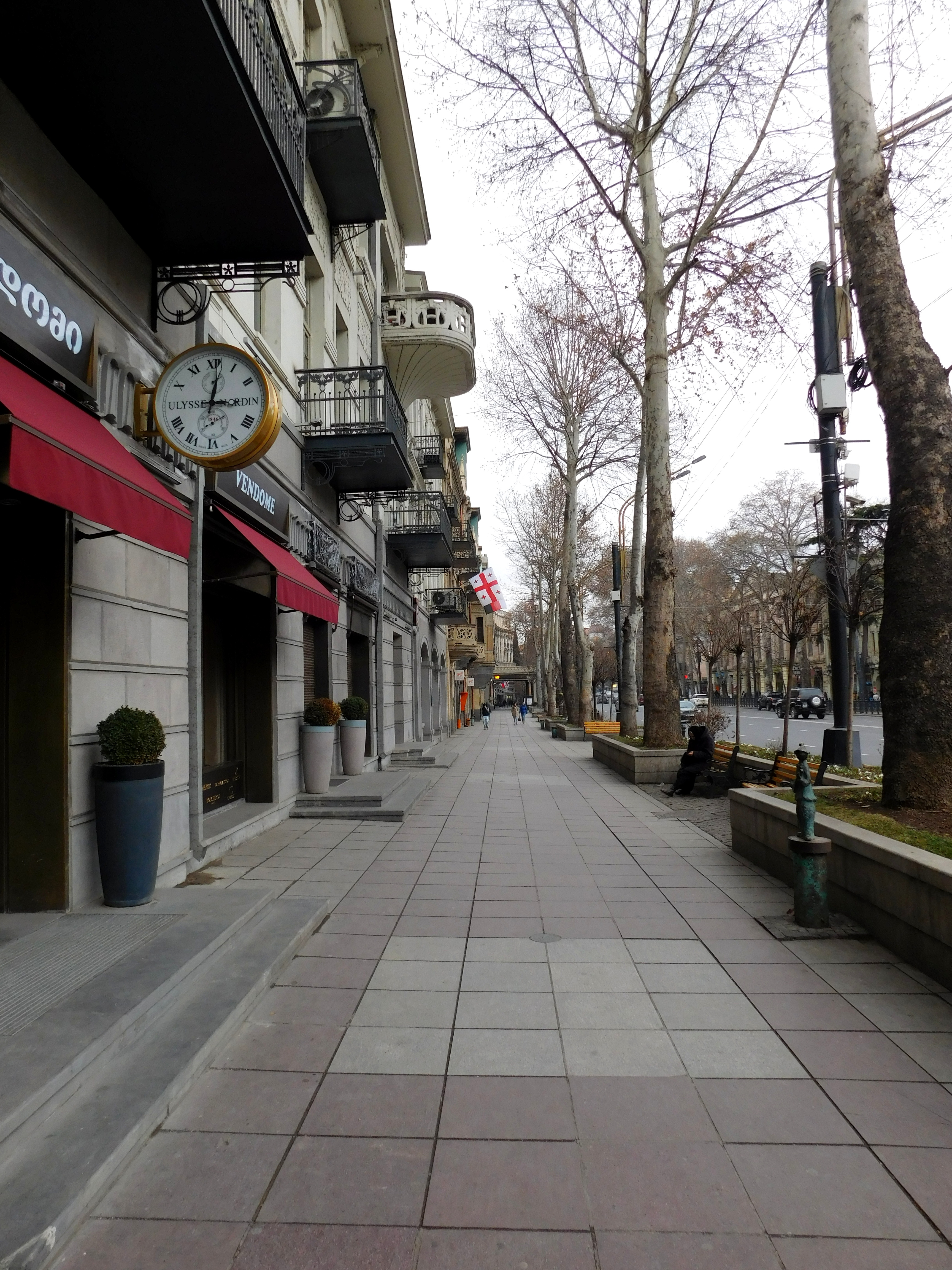 Rustaveli Avenue, Tbilisi, Georgia